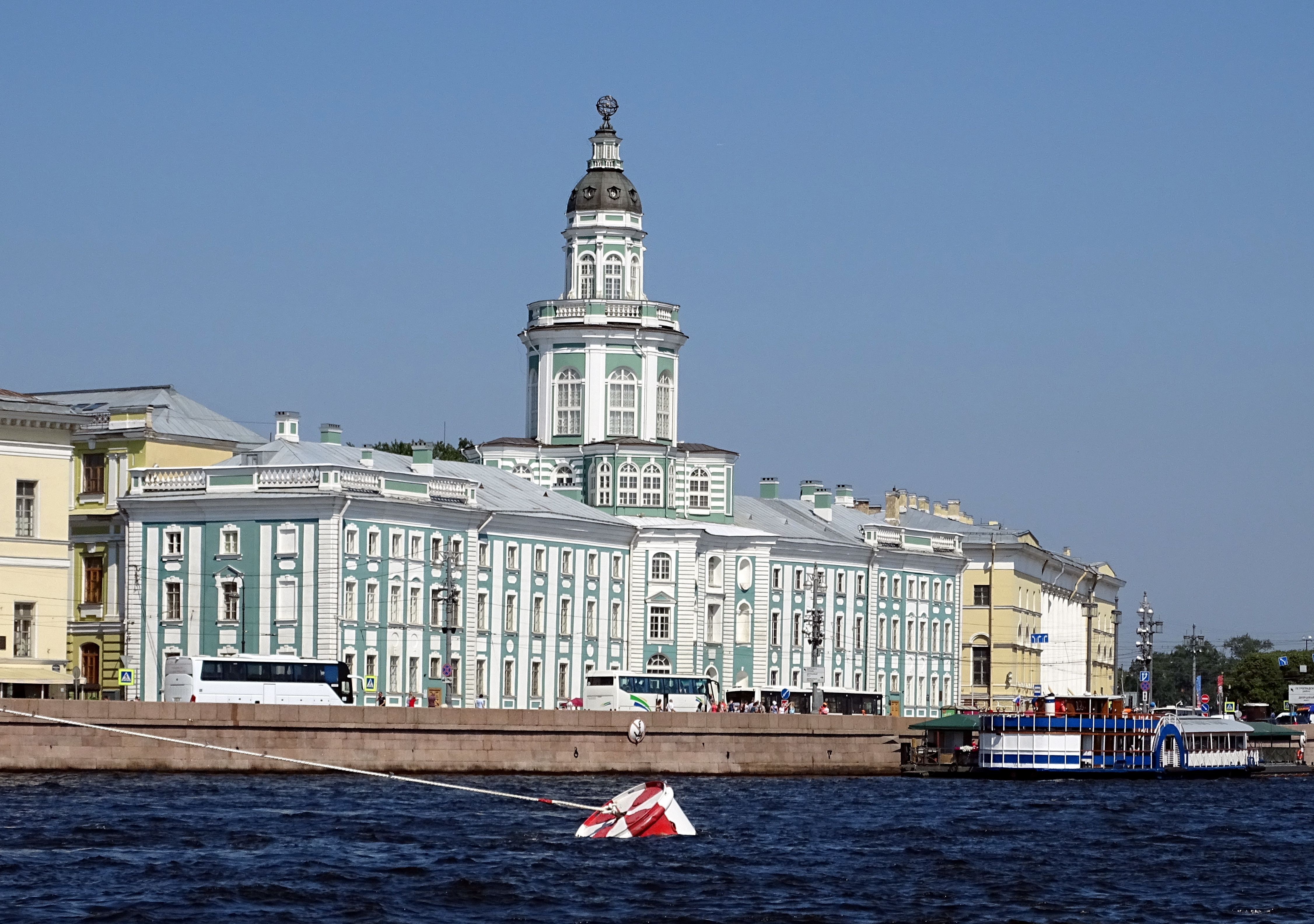 The Kunstkamera in Saint Petersburg as seen from the river Neva.